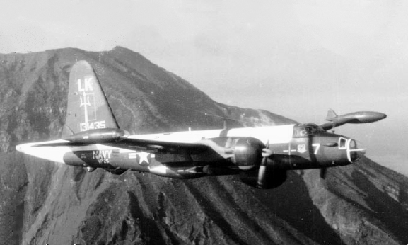 A U.S. Navy Lockheed P-2E Neptune aircraft (BuNo 131435) from Patrol Squadron VP-26 in flight.